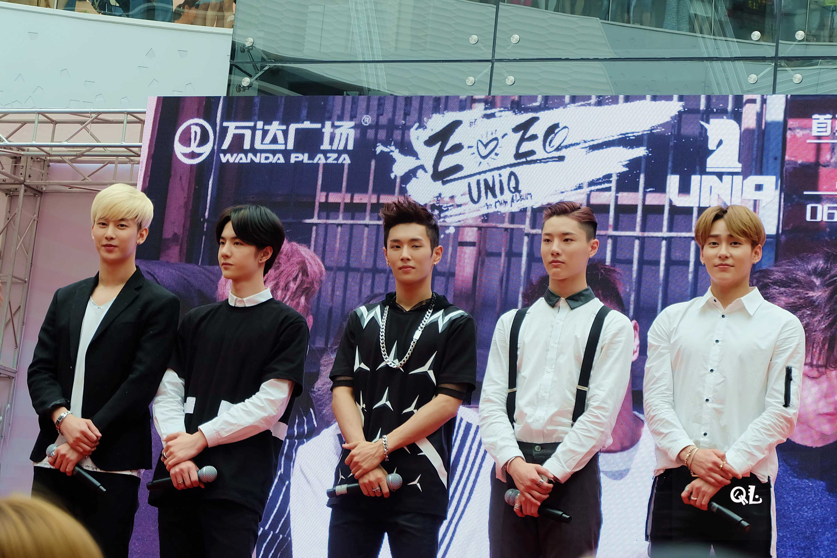 Uniq in Shanghai during a fan sign event, June 21, 2015.